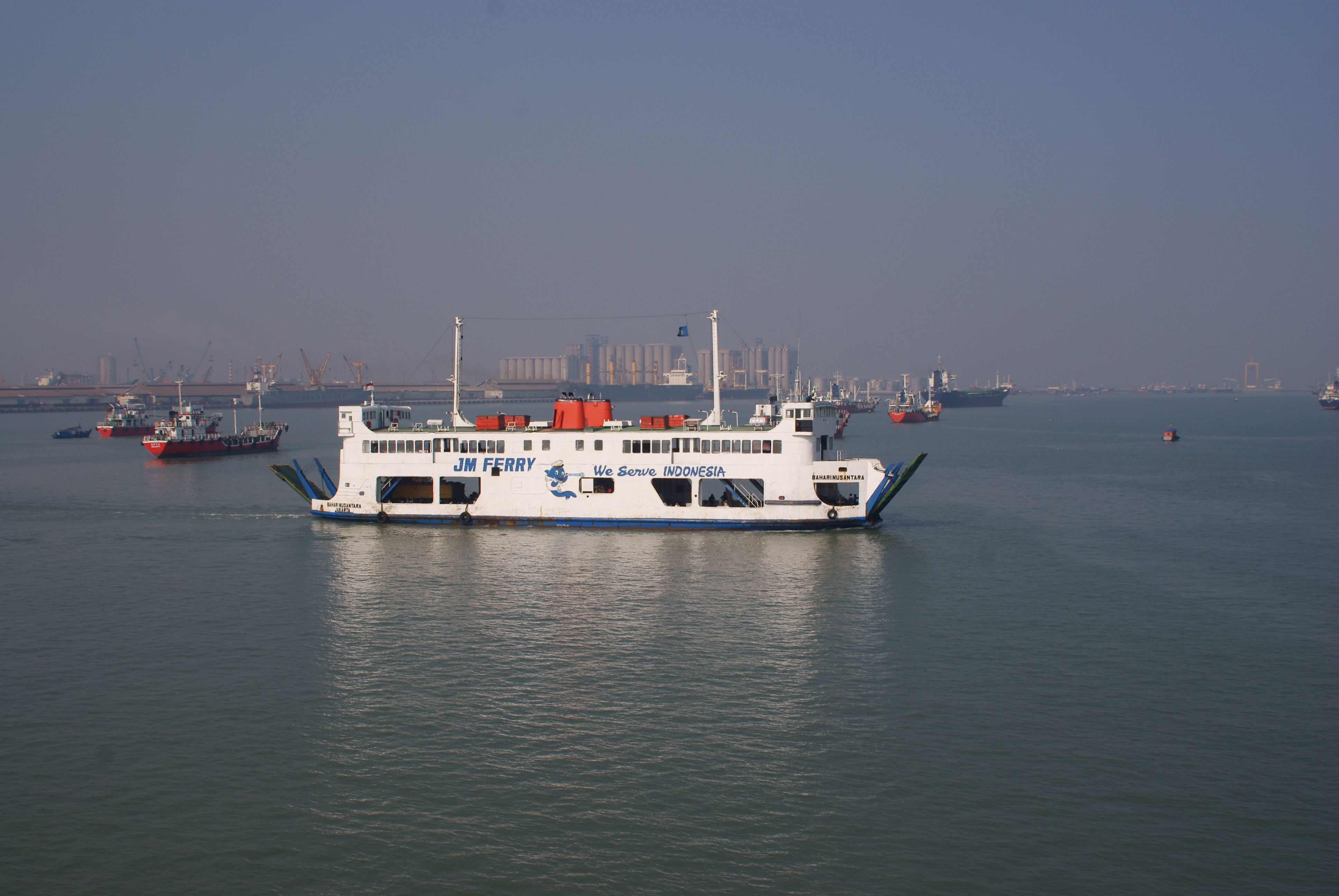 Bahari Nusantara, Madura Strait Ferry